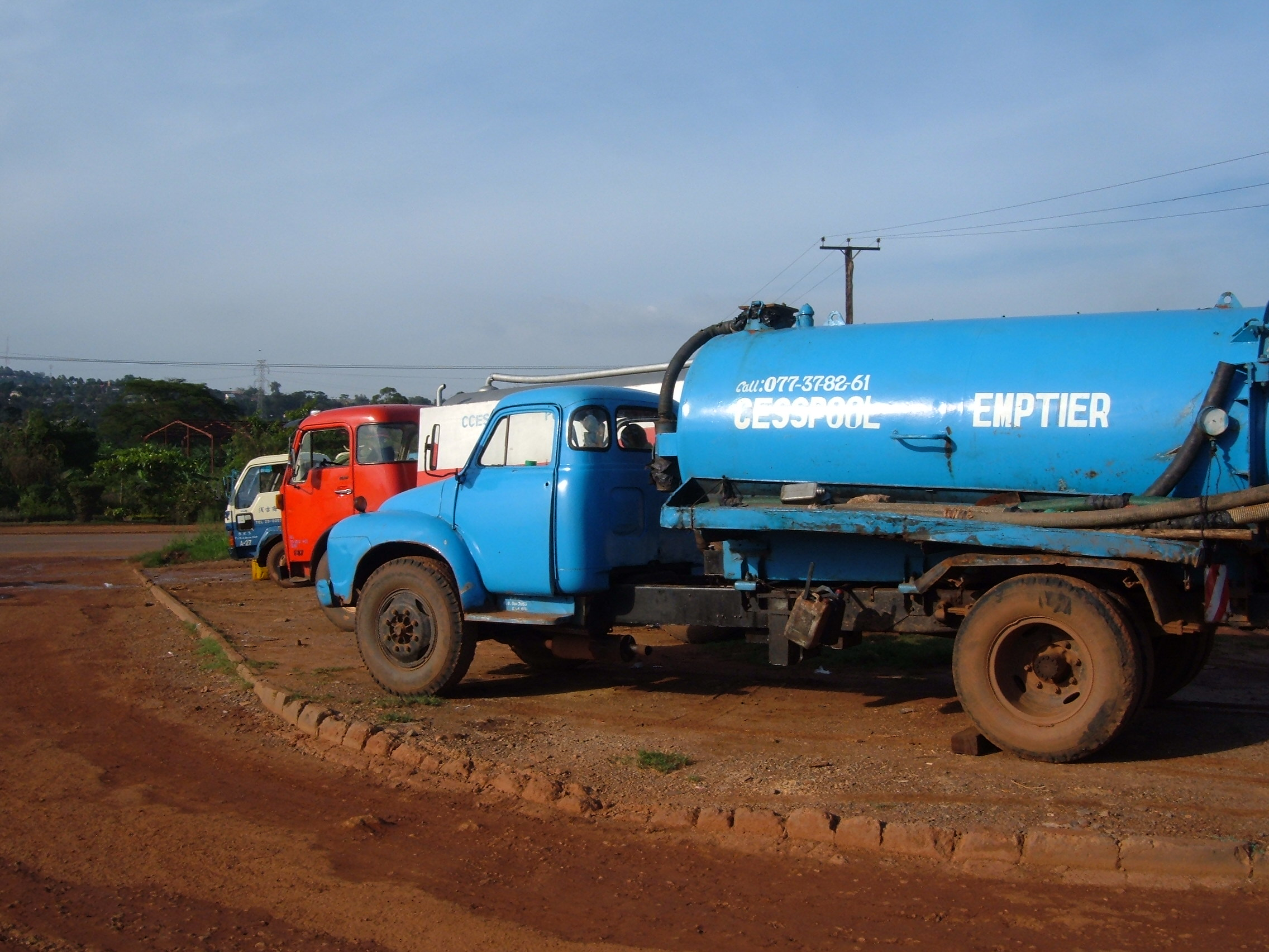 A vacuum tanker used to empty latrine pits when they are full